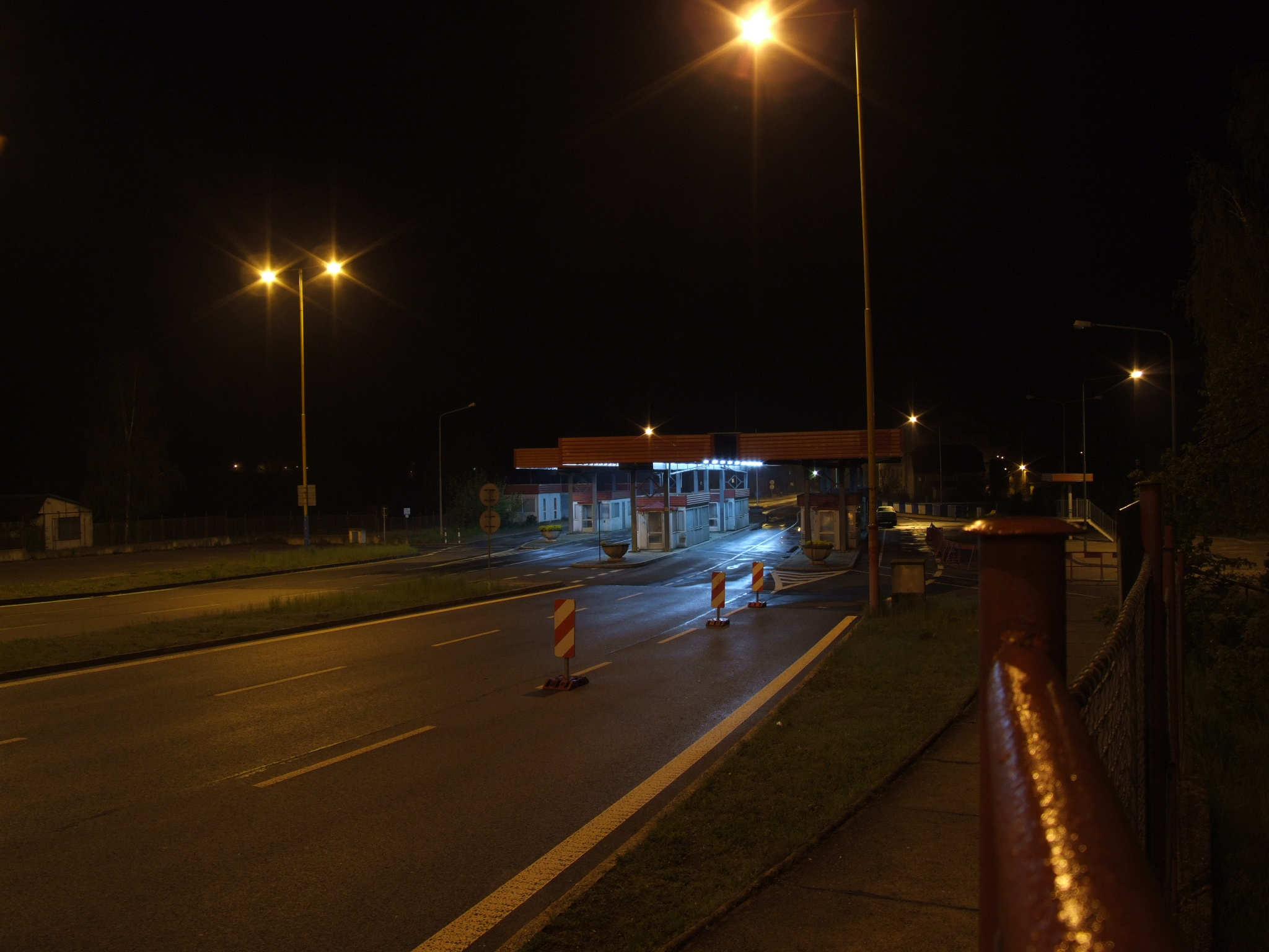 The Czech-Polish frontier in Habartice-Zawidów